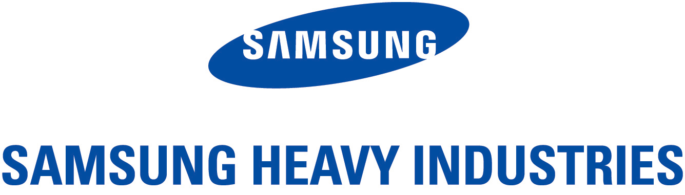 Logo of Samsung Heavy Industries